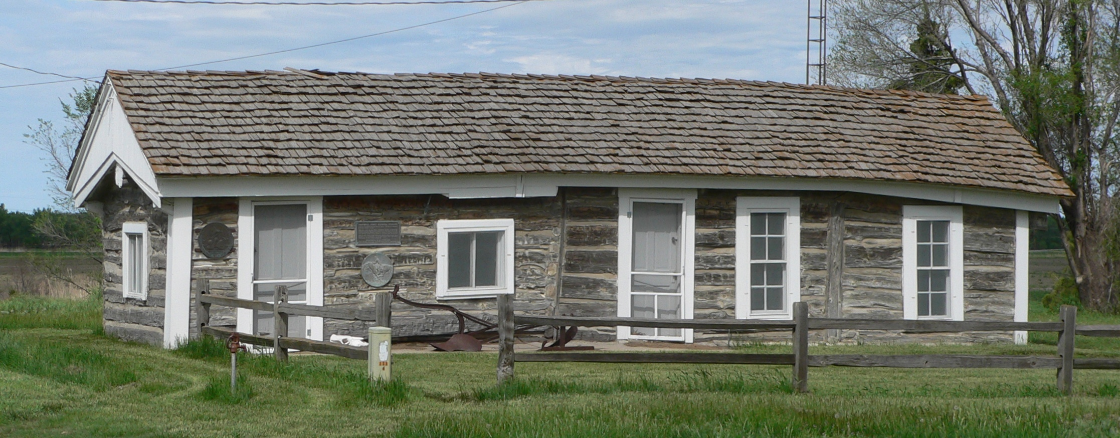 Midway Stage Station, south of Gothenburg, Nebraska; seen from the southwest. The building was constructed ca. 1859. It is listed in the National Register of Historic Places, and is open to the public on a limited basis.